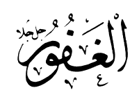 This is one of the Names of Allah. It means The Most Forgiving One.